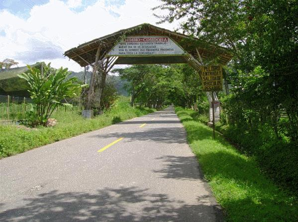 Entrada al Municipio de Cordoba